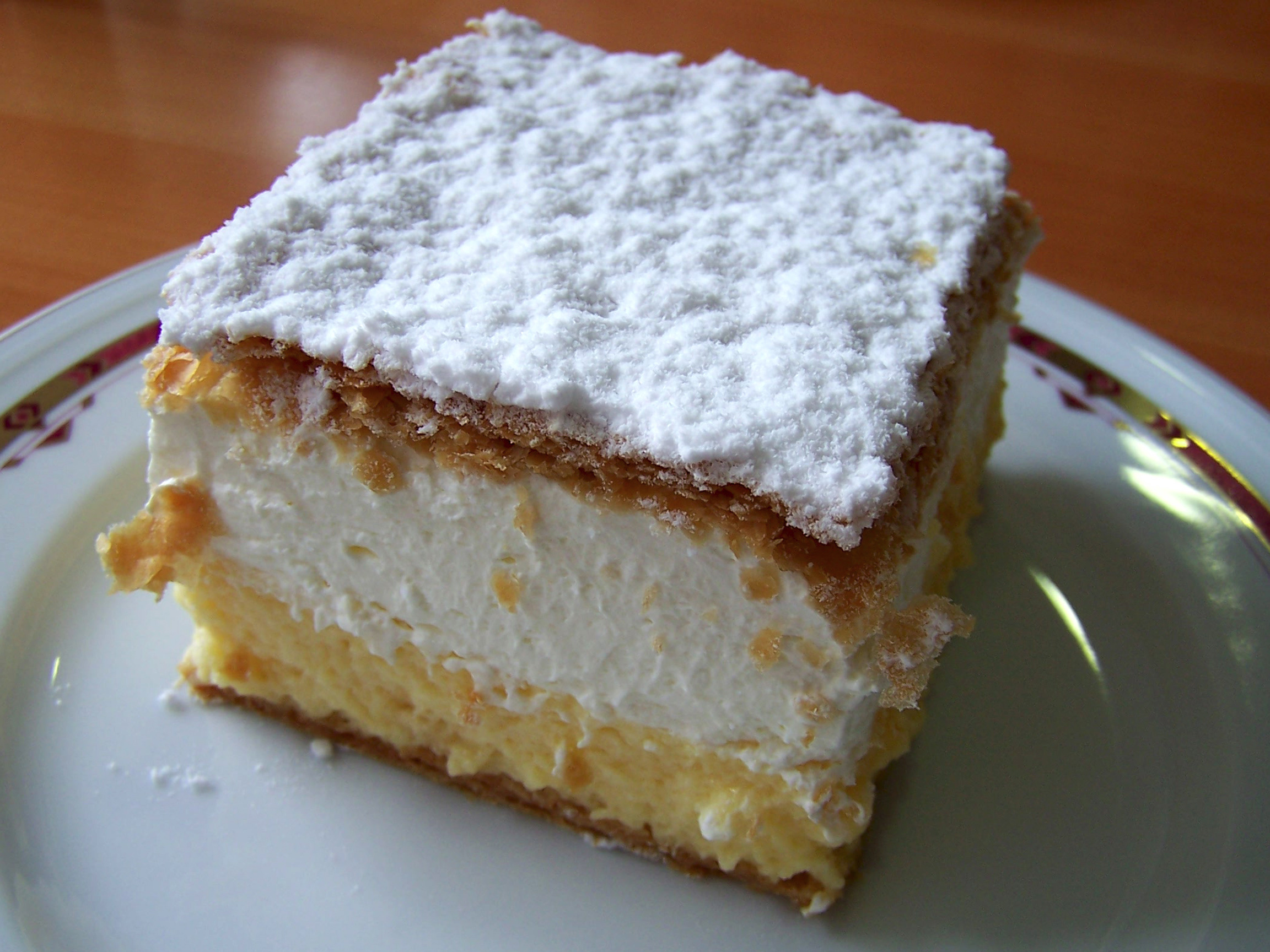 Kremna rezina Slovenian vanilla and custard dessert, photographed at the Park Hotel, Bled in August 2006.